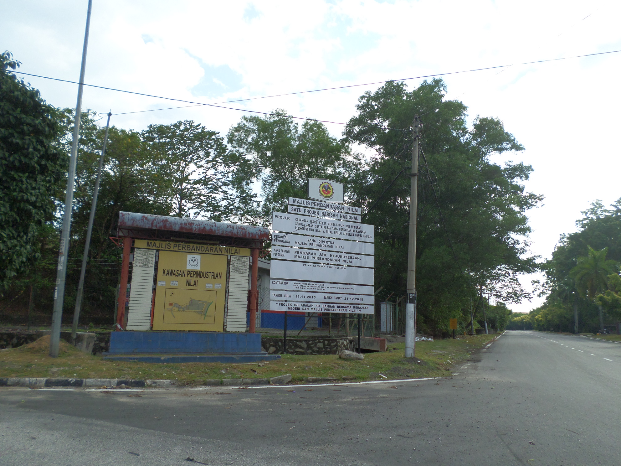 Nilai Industrial Area, Nilai, Seremban, Negeri Sembilan, Malaysia